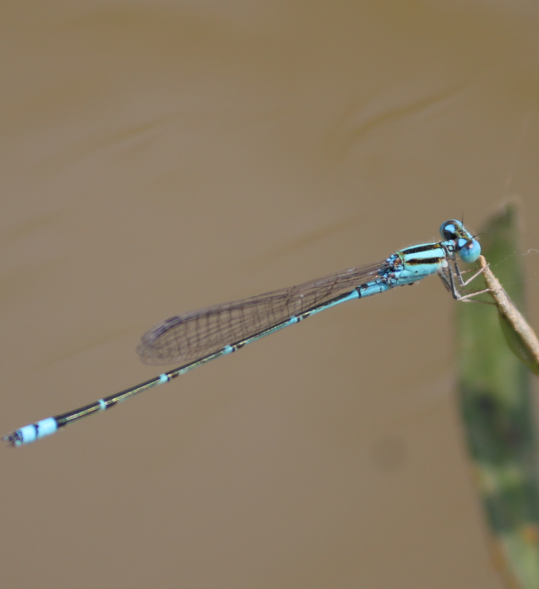 Blue Sprite (blue grass dart, blue river damsel)